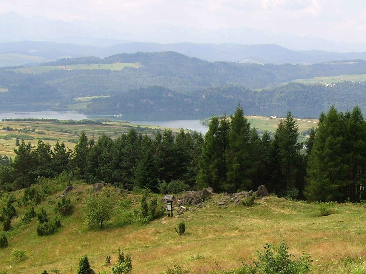 The outcrop of andesite intrusion – rocks near the top of Wdżar Mt (Pieniny Mts, Poland) with magnetic anomaly.